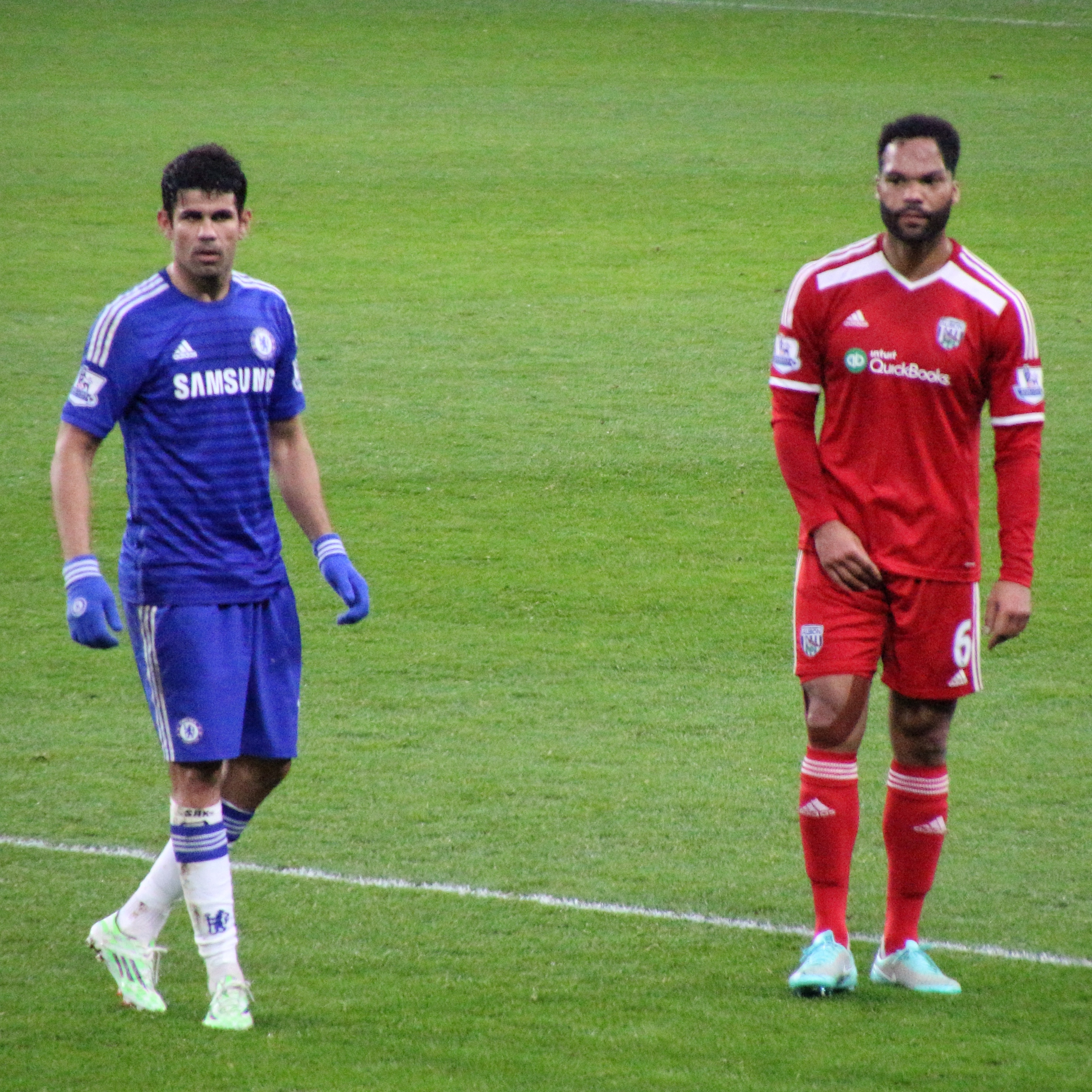 Chelsea 2 West Brom 0 The Blues go marching on.